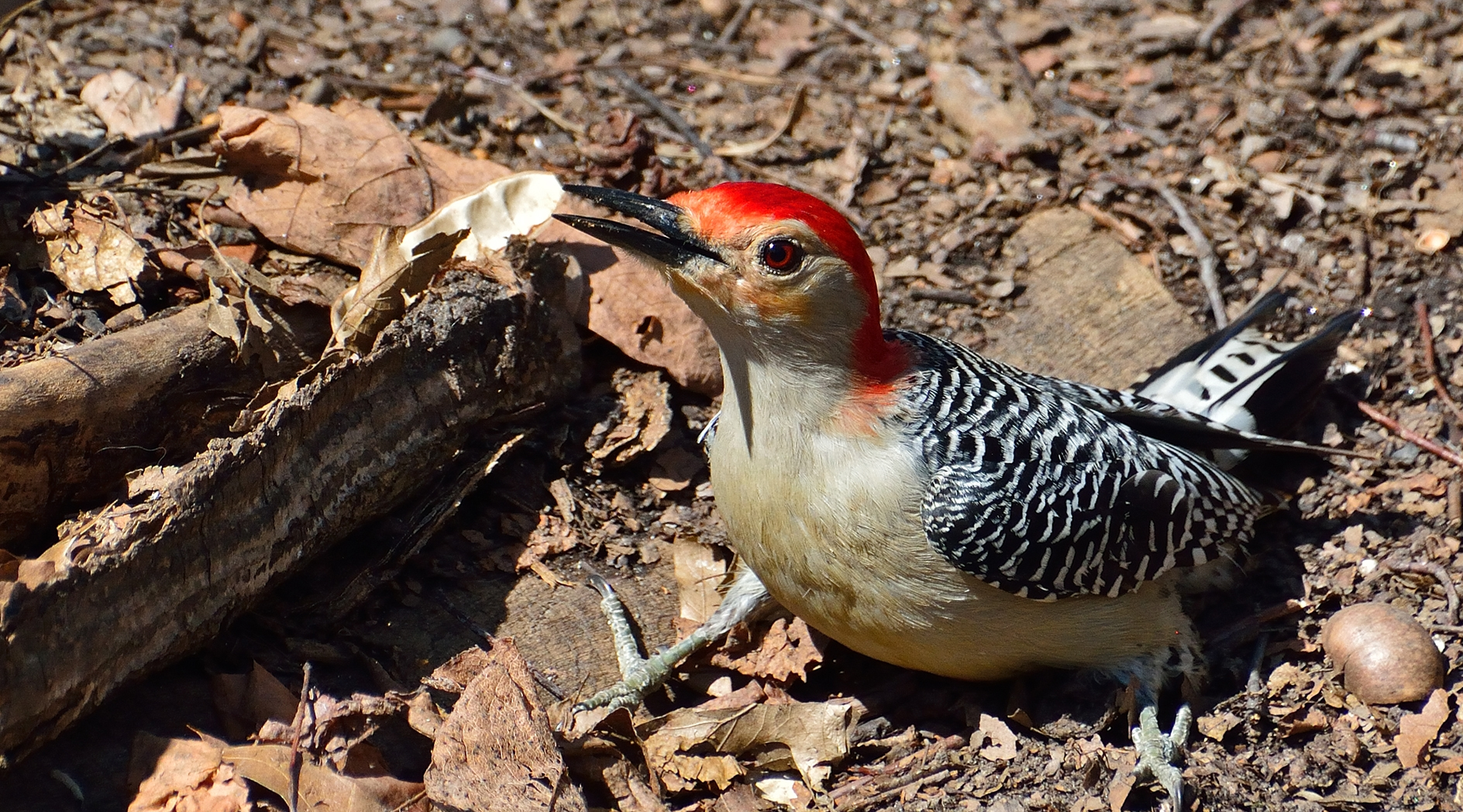 Red-bellied Woodpecker Melanerpes carolinus on the ground, Central Park, New York, USA.